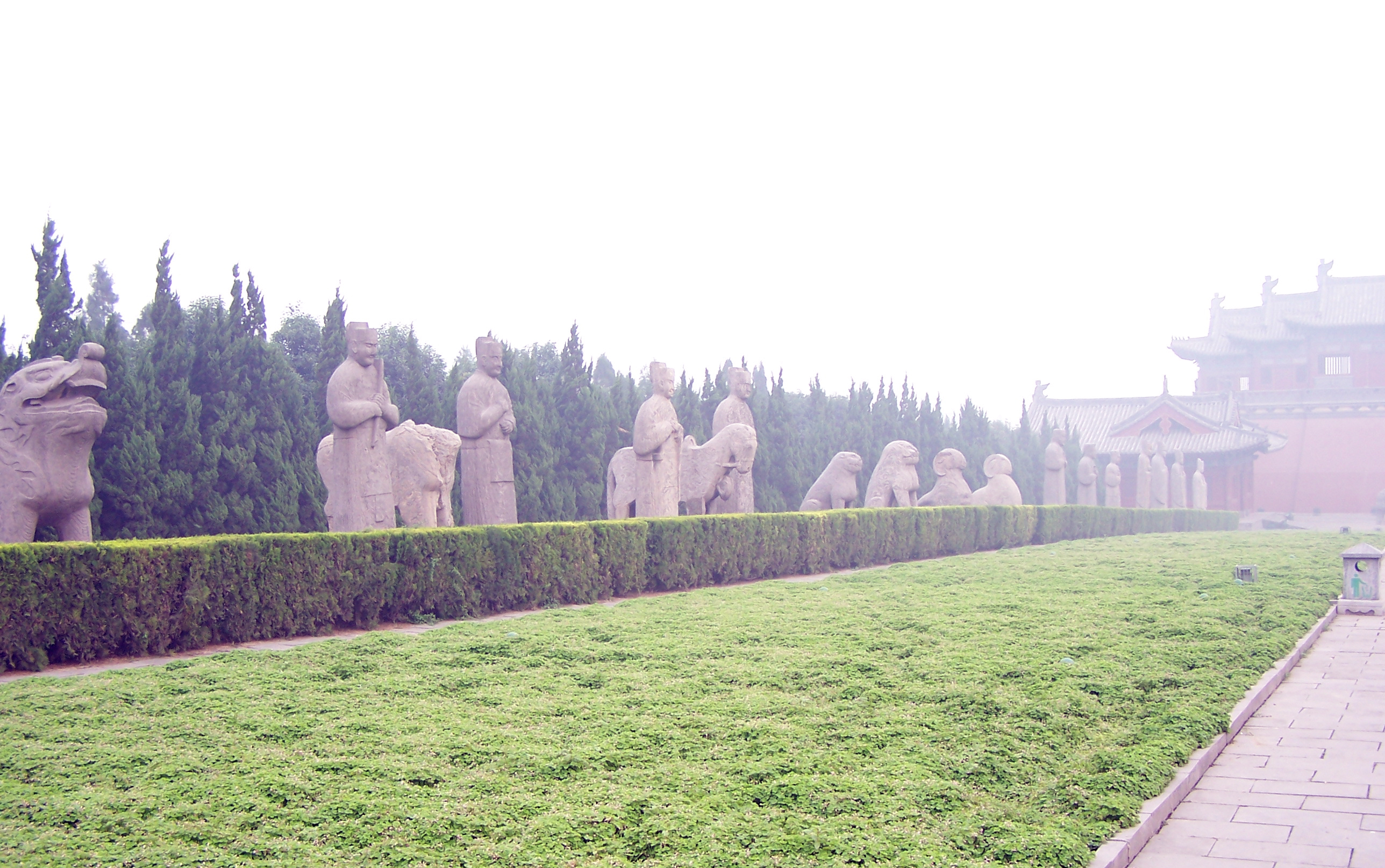 Emperors tombs of Song dynasty in Henan Province, China